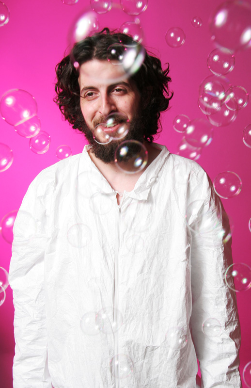 Portrait of Scott Blake with bubbles.